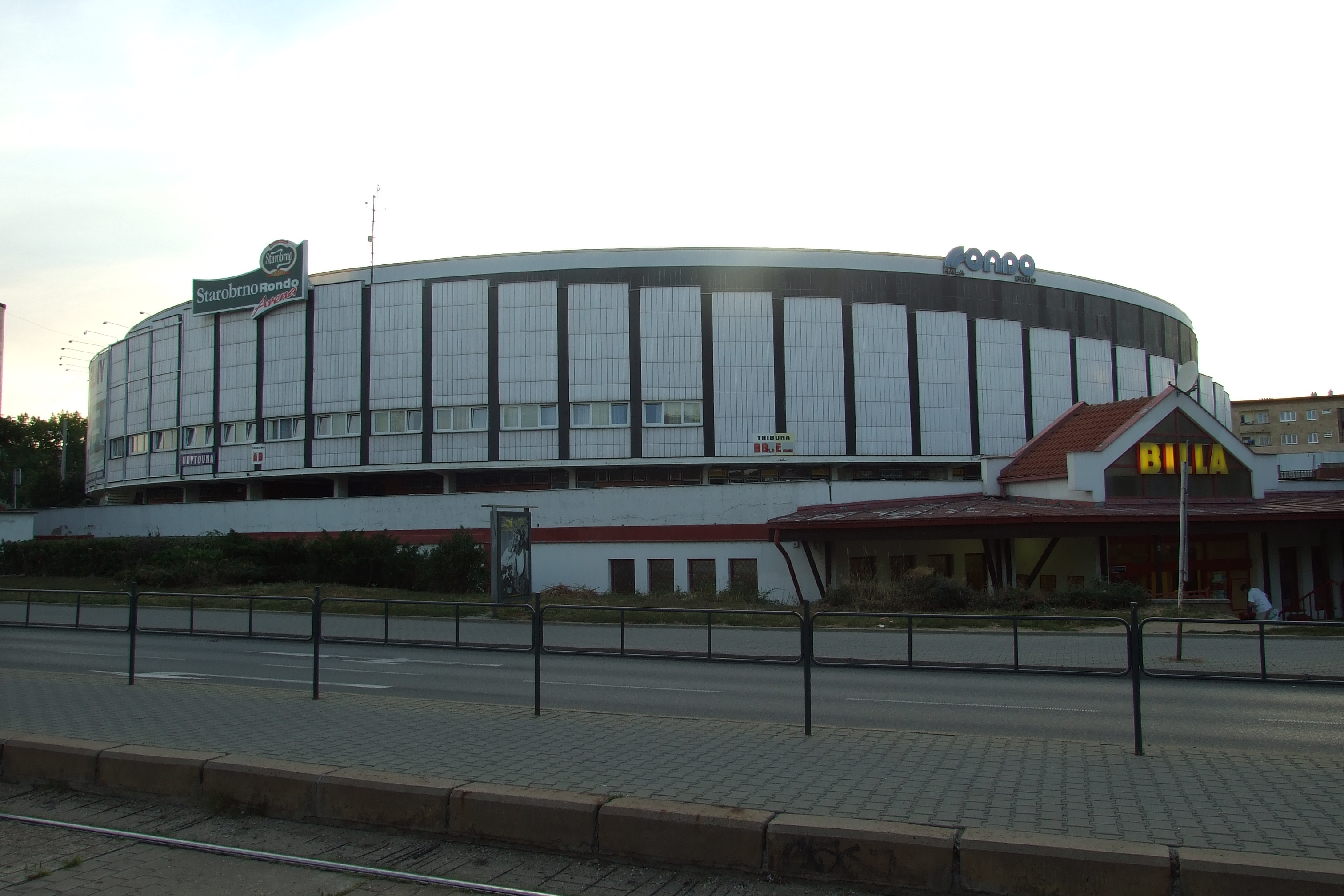 Old Brno - Rondo Hall